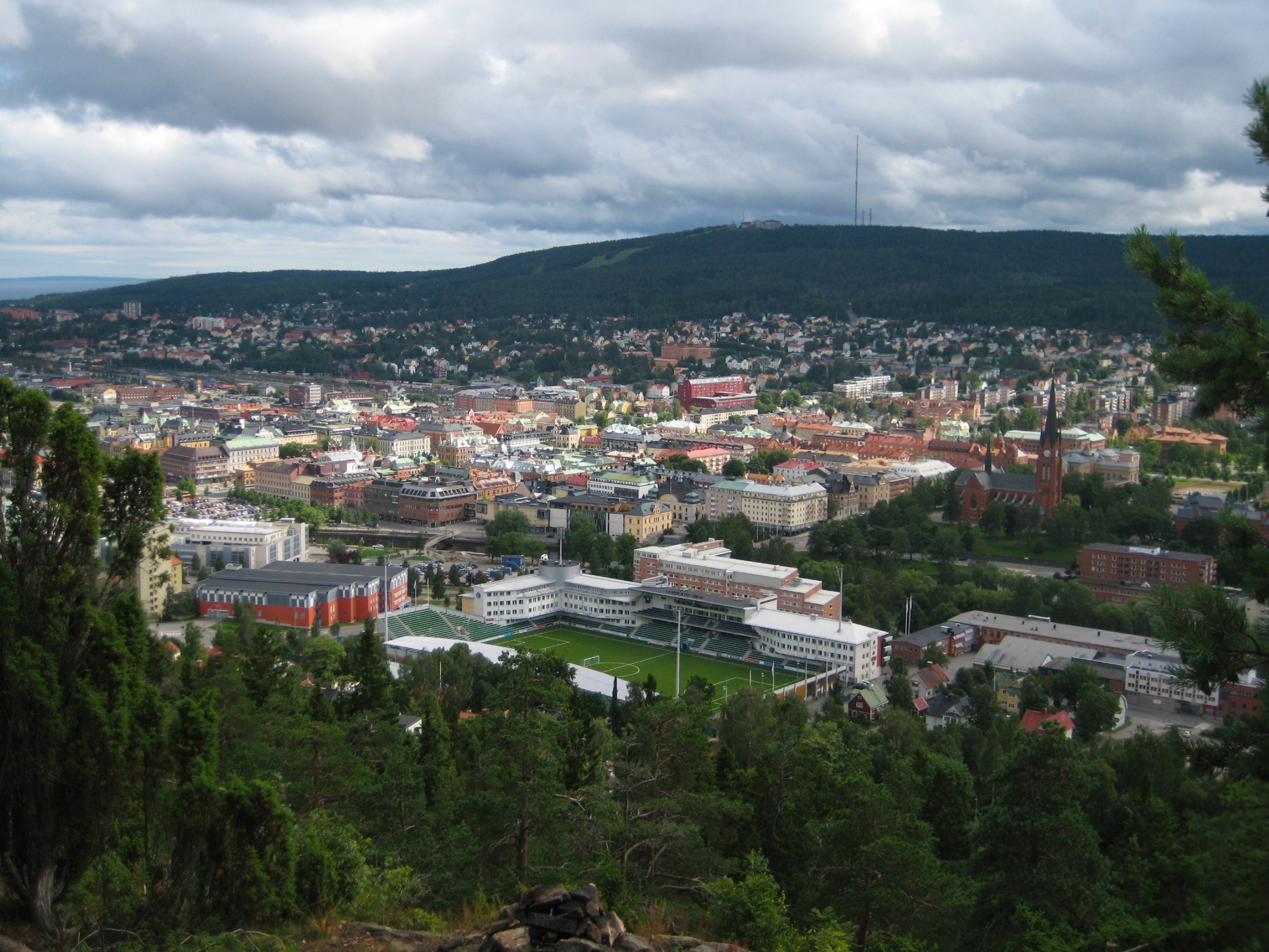 View from Norra Stadsberget